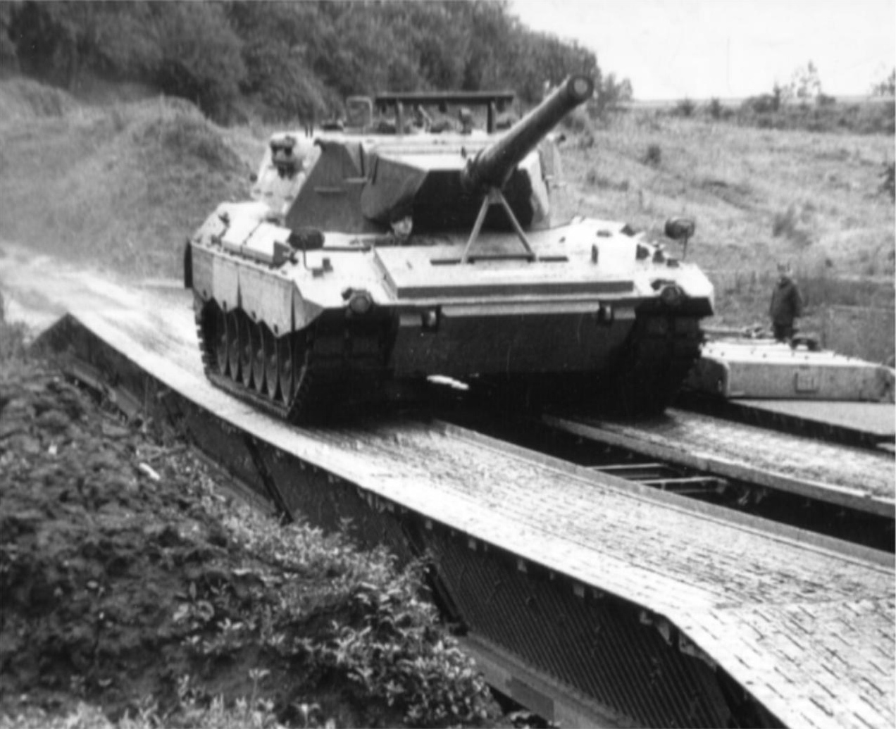 Leopard 2 Prototype No. 19 on Bridge M 80